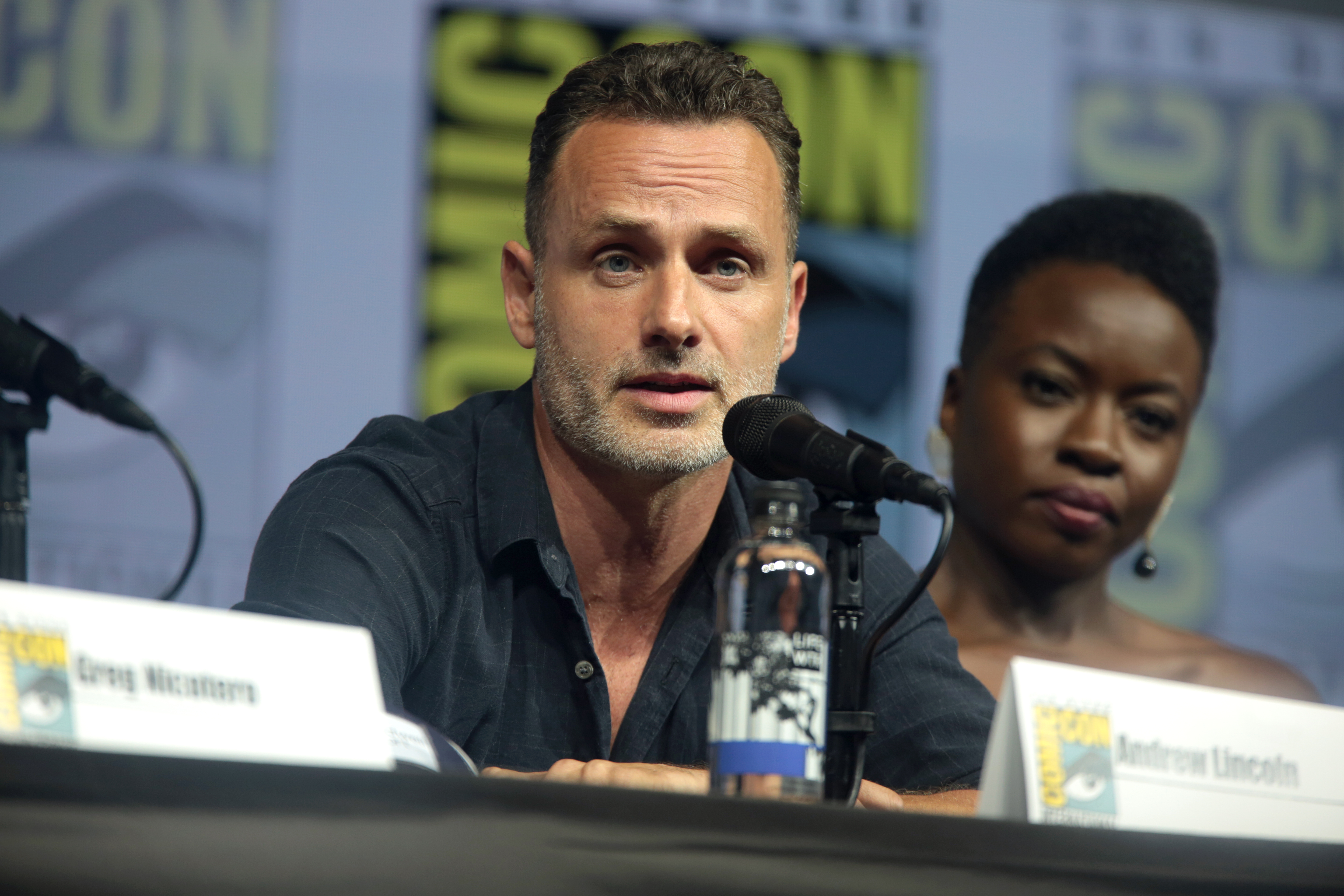 Andrew Lincoln at San Diego Comic Con